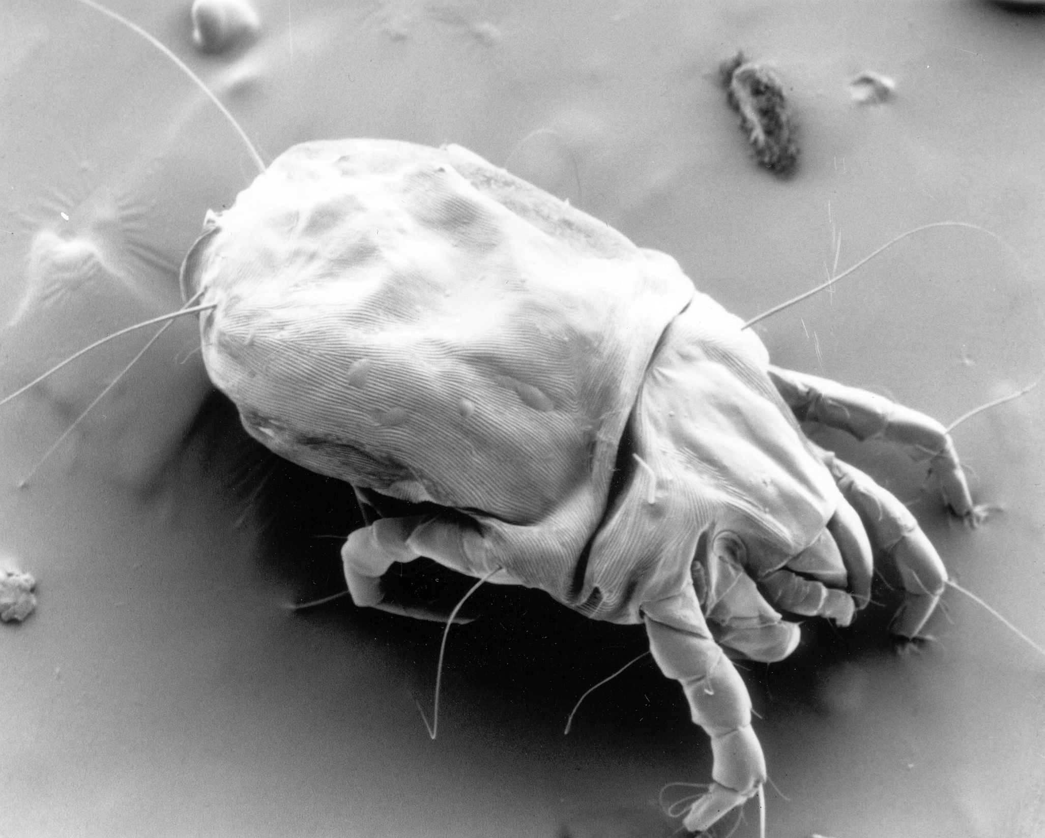 House dust mites are tiny – around 0.25mm to 0.50mm long. They feed on organic 'dust' such as flakes of shed human skin, and love our houses where they can be found in our beds, clothing, curtains and carpets. The allergens produced by the mites are found in their bodies, secretions, faecal matter and shed skins. Some of their gut enzymes can be strongly allergenic and these often persist in their faecal matter. These mites are ubiquitous. They have even been found in the Antarctic and on the Mir Space Station. Their recorded history goes back to the 17th Century.